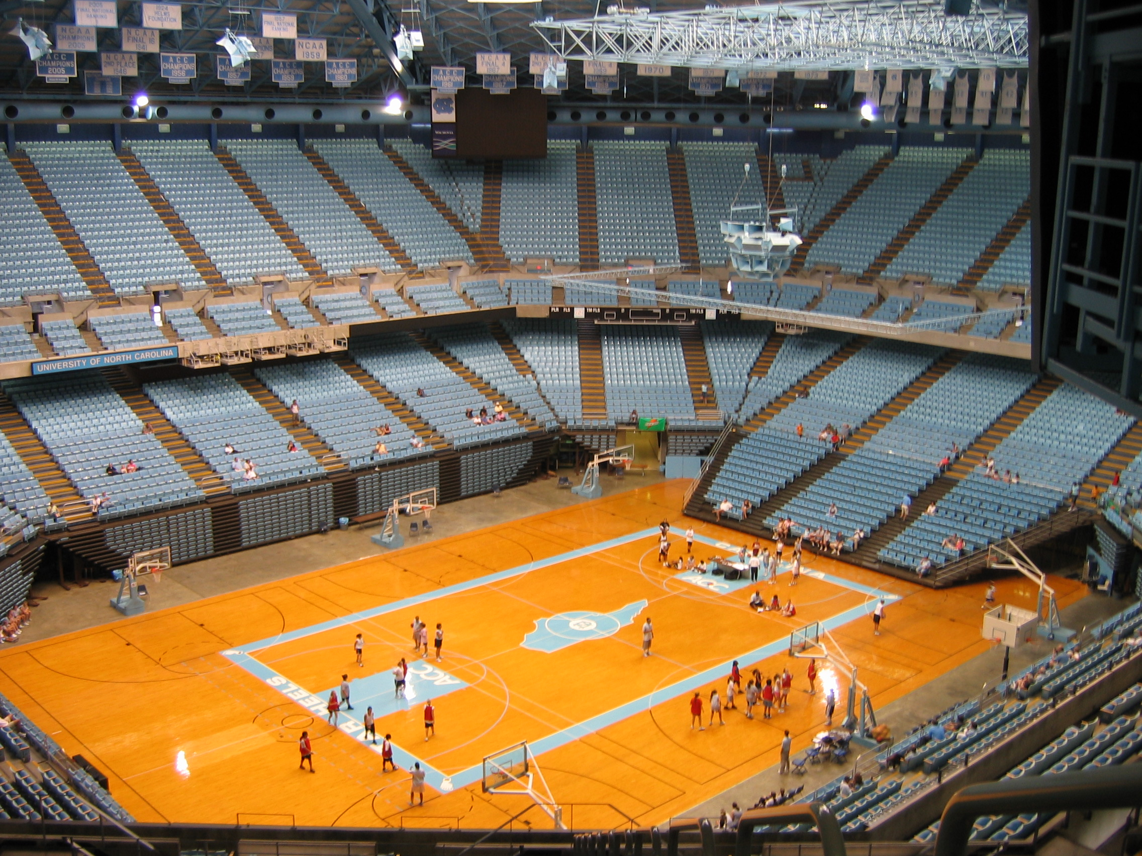 The interior of the Dean Smith Center. Summer 2006.